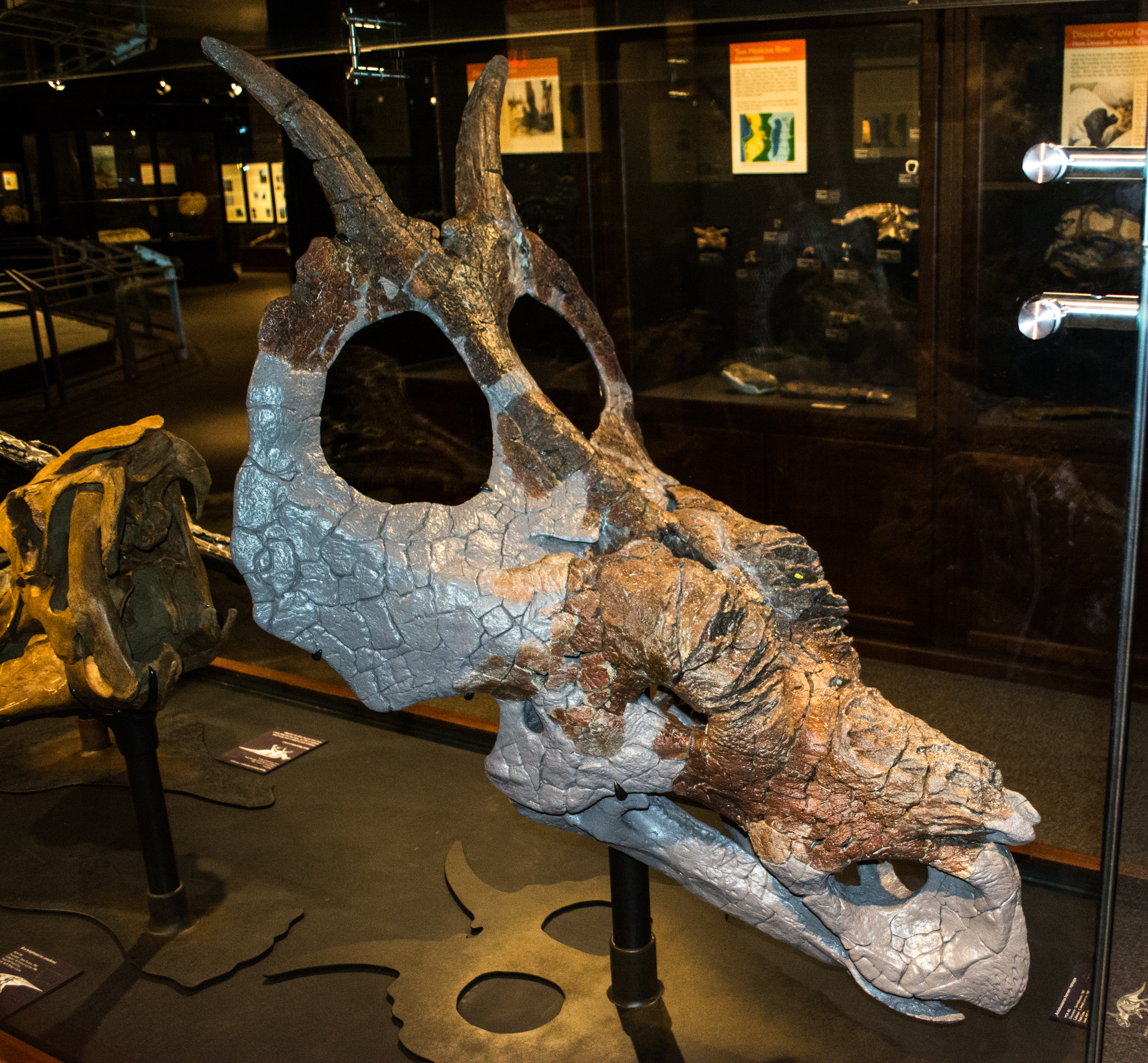 Achelousaurus horneri skull on display at the Museum of the Rockies in Bozeman, Montana. This fossil was collected in 1987 in the Two Medicine Formation in Glacier County, Montana. Achelousaurus lived about 74 to 72 million years ago. Only skulls have been found, so it is difficult to say how long or heavy they were. Adult skulls were about 5 feet in length. Achelousaurus is a Centrosaurinae. Ceratopsids are a group of heavy, four-legged, frilled, beaked herbivores. The most famous of these is Triceratops. The Ceratopsinae, a family of the Ceratopsids, had long, triangular frills and eyebrow horns. The Centrosaurinae, the other family, had shorter and more rectangular frills, elaborate spines on the back of the frill, no eyebrow horns, and better-developed nasal horns.